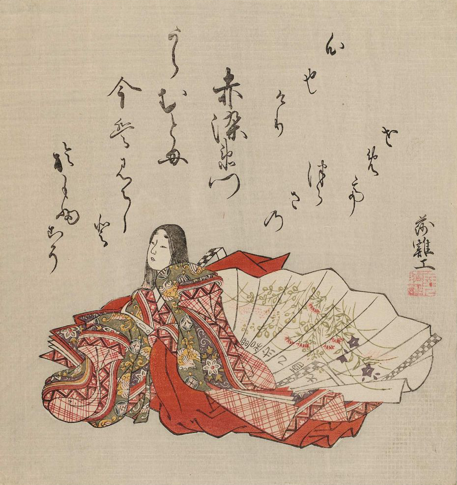 Akazome Emon, 11th century Japanese poet